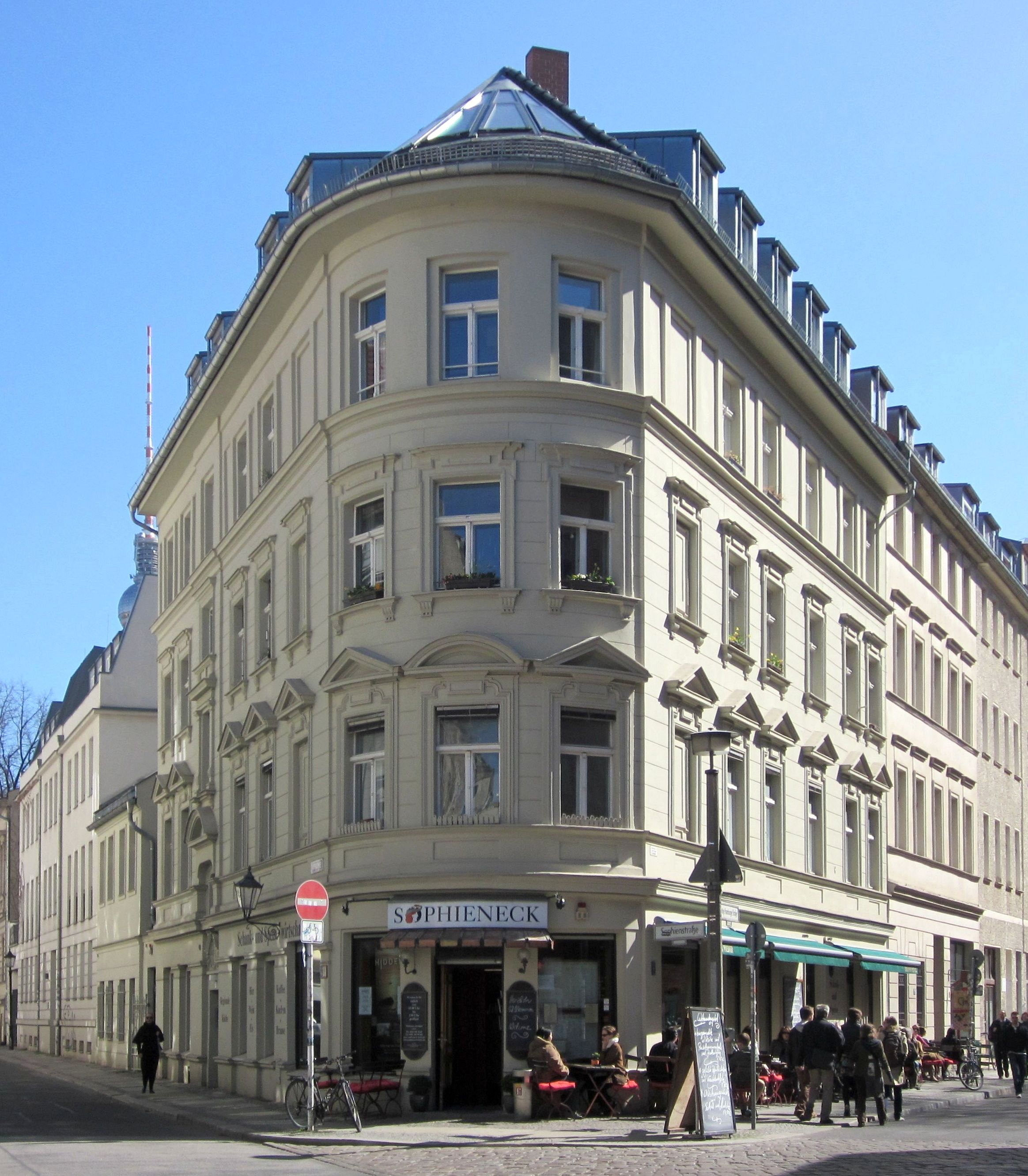 Residential building Große Hamburger Straße 37, corner of Sophinestraße (on the left), in Berlin-Mitte. The house was built in 1892. It has been designated as a historic landmark.